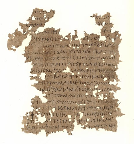 Papyrus 53